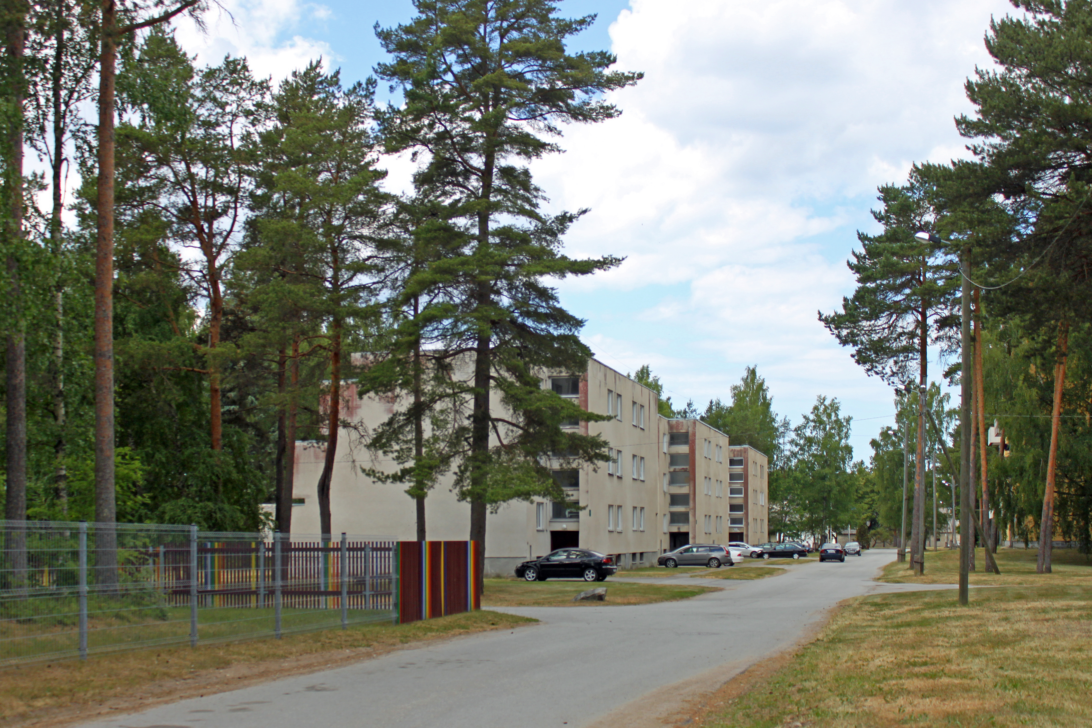 Padise village, Estonia